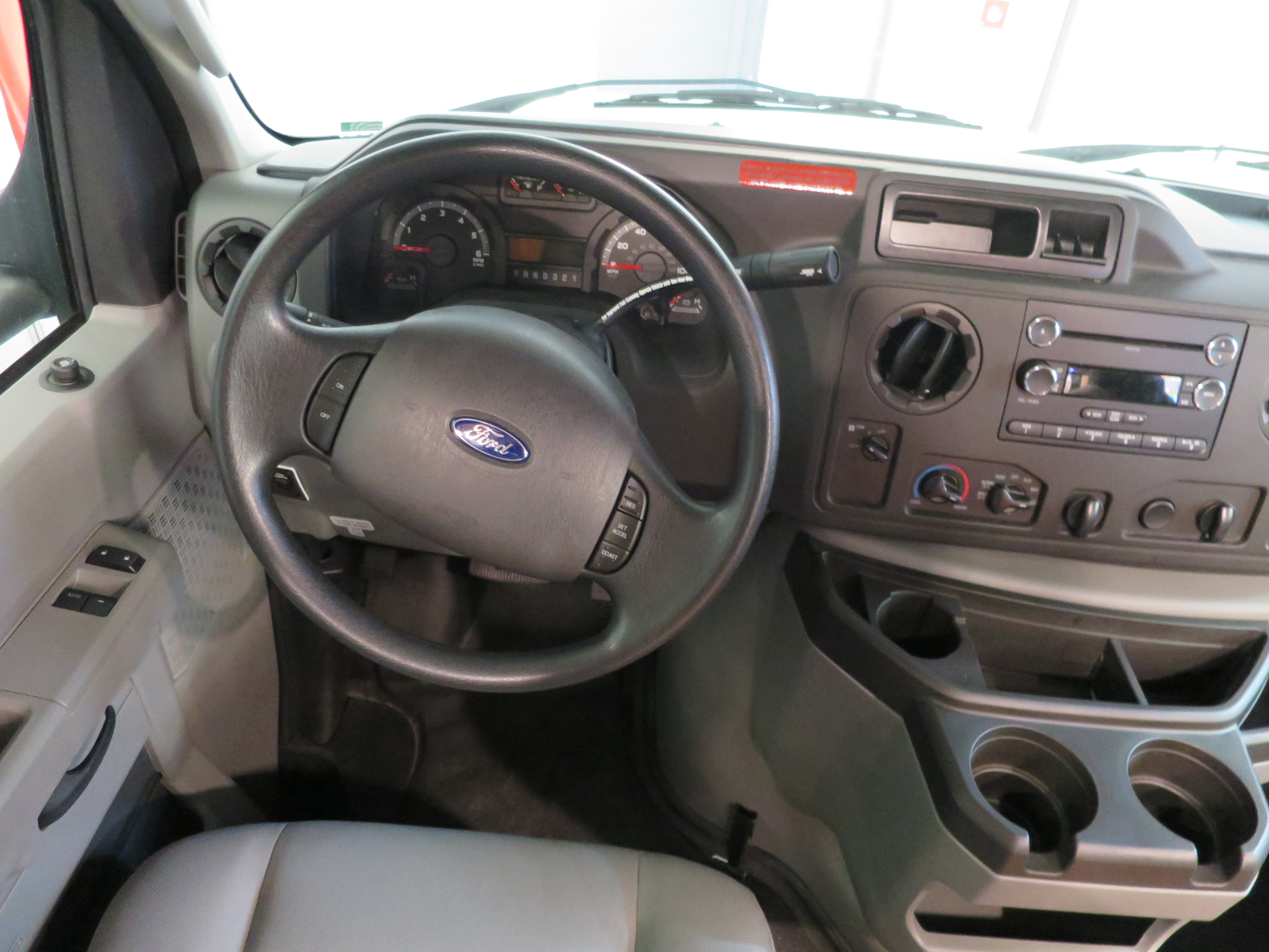 Ford E350 800-RV ITB 2017.